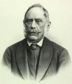 (1815-1888) - minister ds Galicji 1871